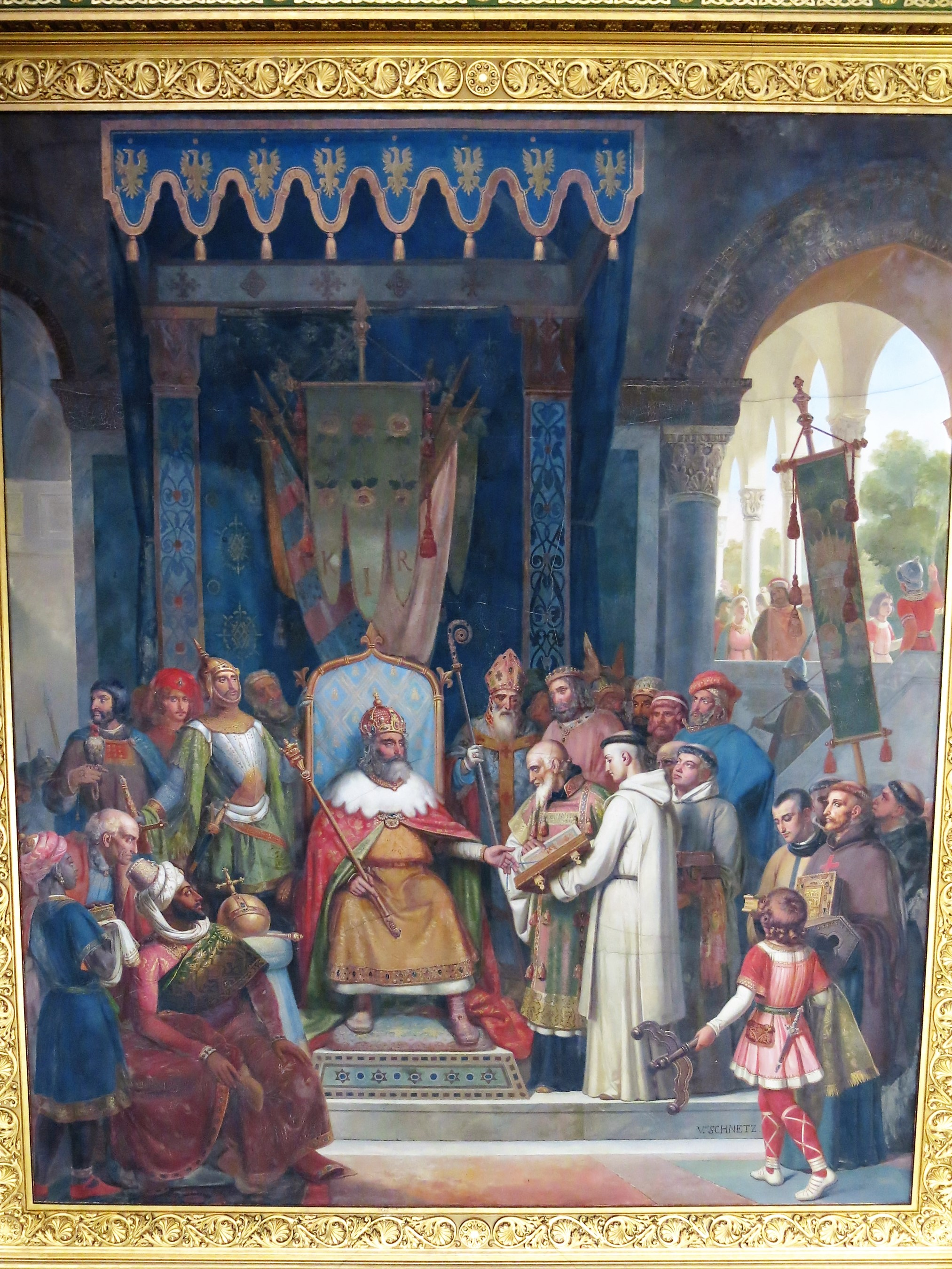 Charlemagne receiving Alcuin who shows to him the manuscripts written by his monks